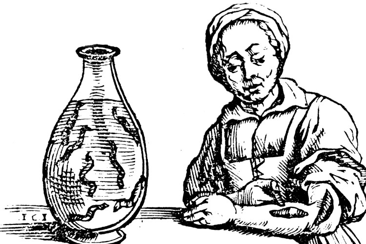 Treatment with leeches. Historical artwork of a woman using leeches to treat disease. She has taken some of the blood-sucking leeches out of a jar at left and placed them on her arm. Leeches were prescribed to treat diseases thought to be caused by the presence of too much blood in the body. While this medical theory has been disproved, leeches are sometimes used today to drain areas of partially clotted blood (haematomas) from a wound. This woodcut is from Historia Medica by W. van den Bossche, which was published in 1638.